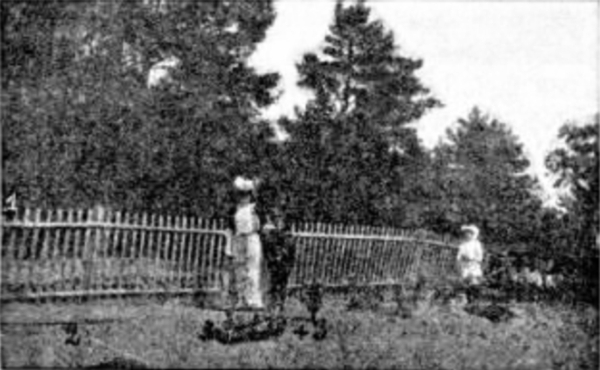 The assassination site of Mikhail Herzenstein (1859–1906) in Terioki